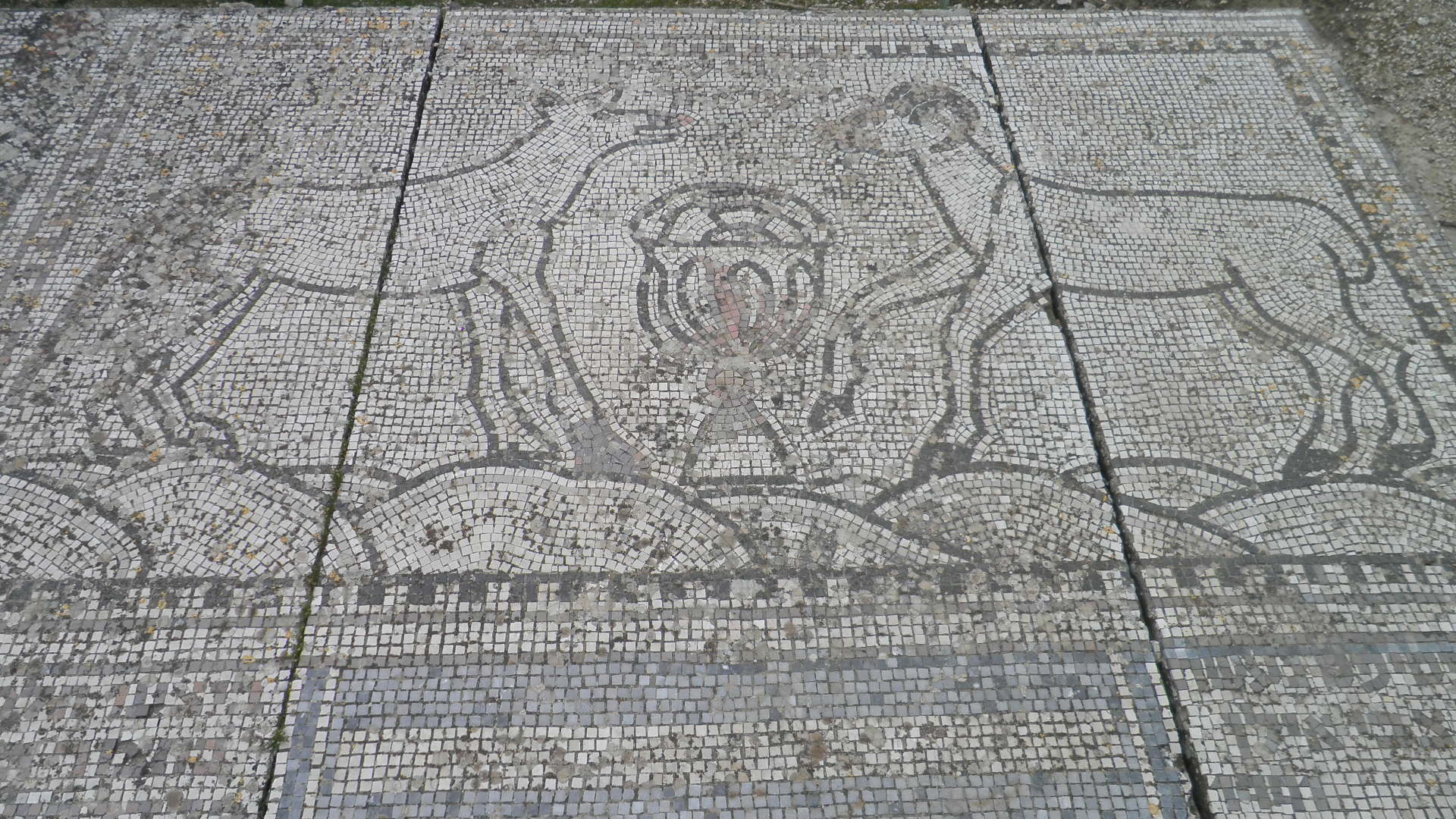 Ruins of Marot ancient synagogue. Columns and mosaic of animals.